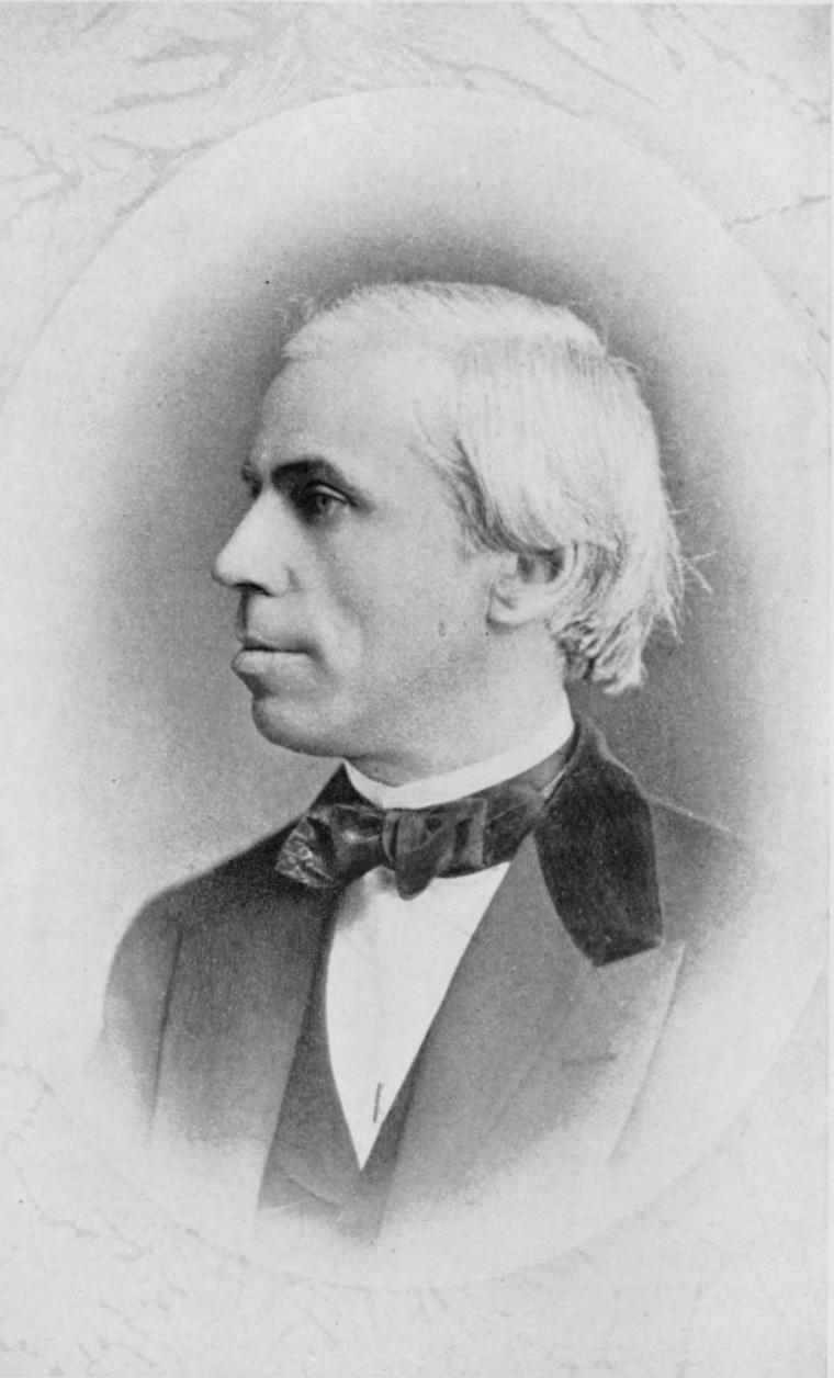 Portrait of James Hadley (1821–1872) from Timothy Dwight V's Memories of Yale Life and Men (1903)